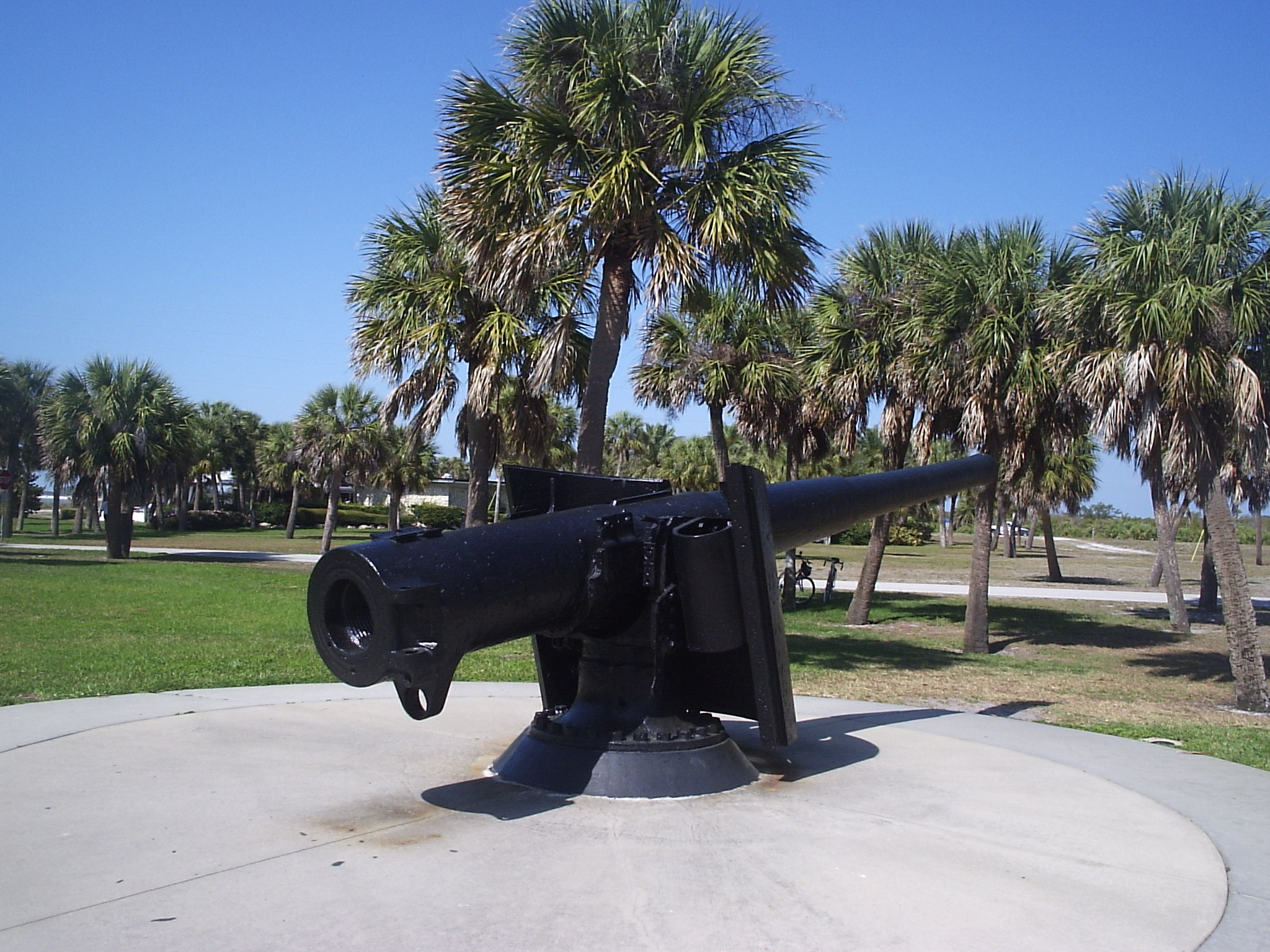 Photograph of 6 inch 40 calibre gun built by Armstrongs and supplied to the United States in 1898. It was used for coast defence at Fort Dade, Florida. See File:Fort Desoto04.jpg for description and history. Taken by me at Fort Desoto Park, Pinellas County, Florida. Olympus Camedia D-395 digital camera. CC-BY-SA-2.5 Mikereichold 00:42, 17 March 2006 (UTC)